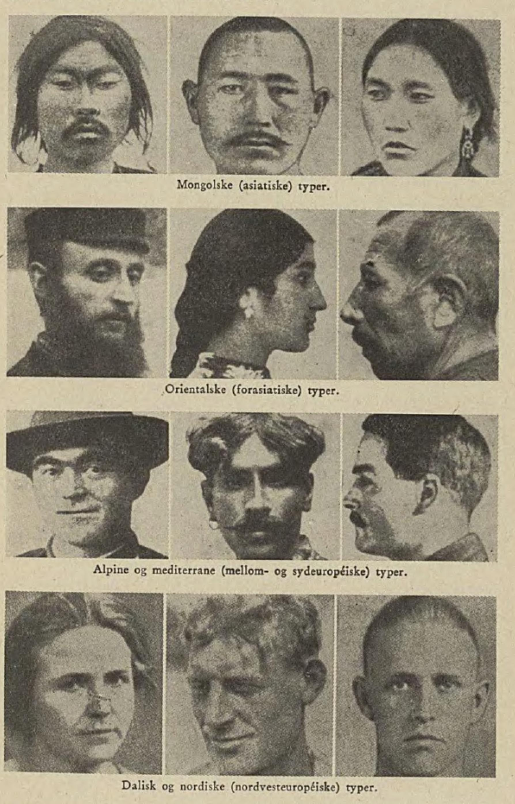 Table 2 of "human races" from Rasehygiene.